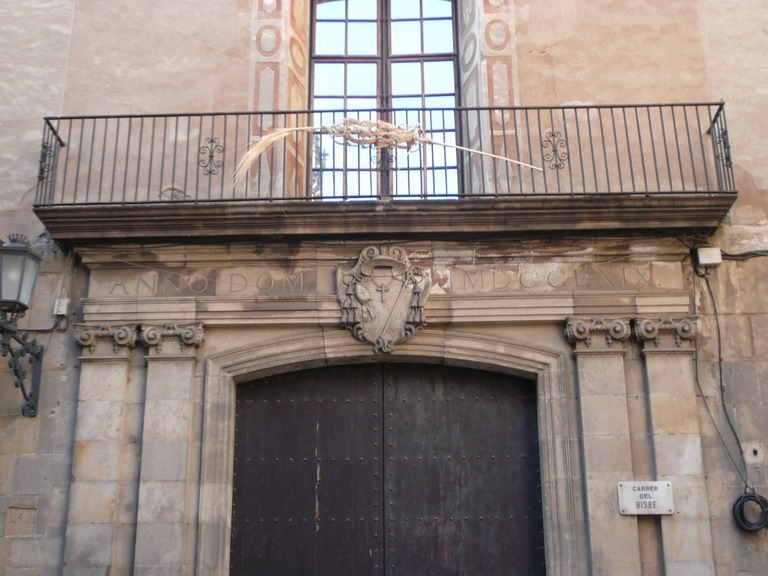 Bishop's palace, Barcelona. See Holy Week palm at the balcony